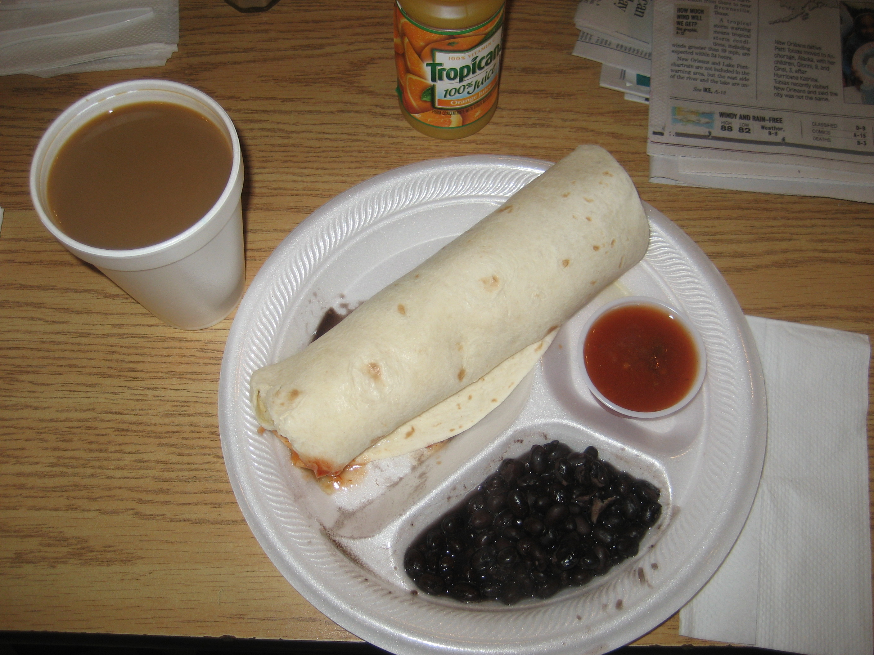 Breakfast burrito at po-boy shop on Magazine Street, New Orleans